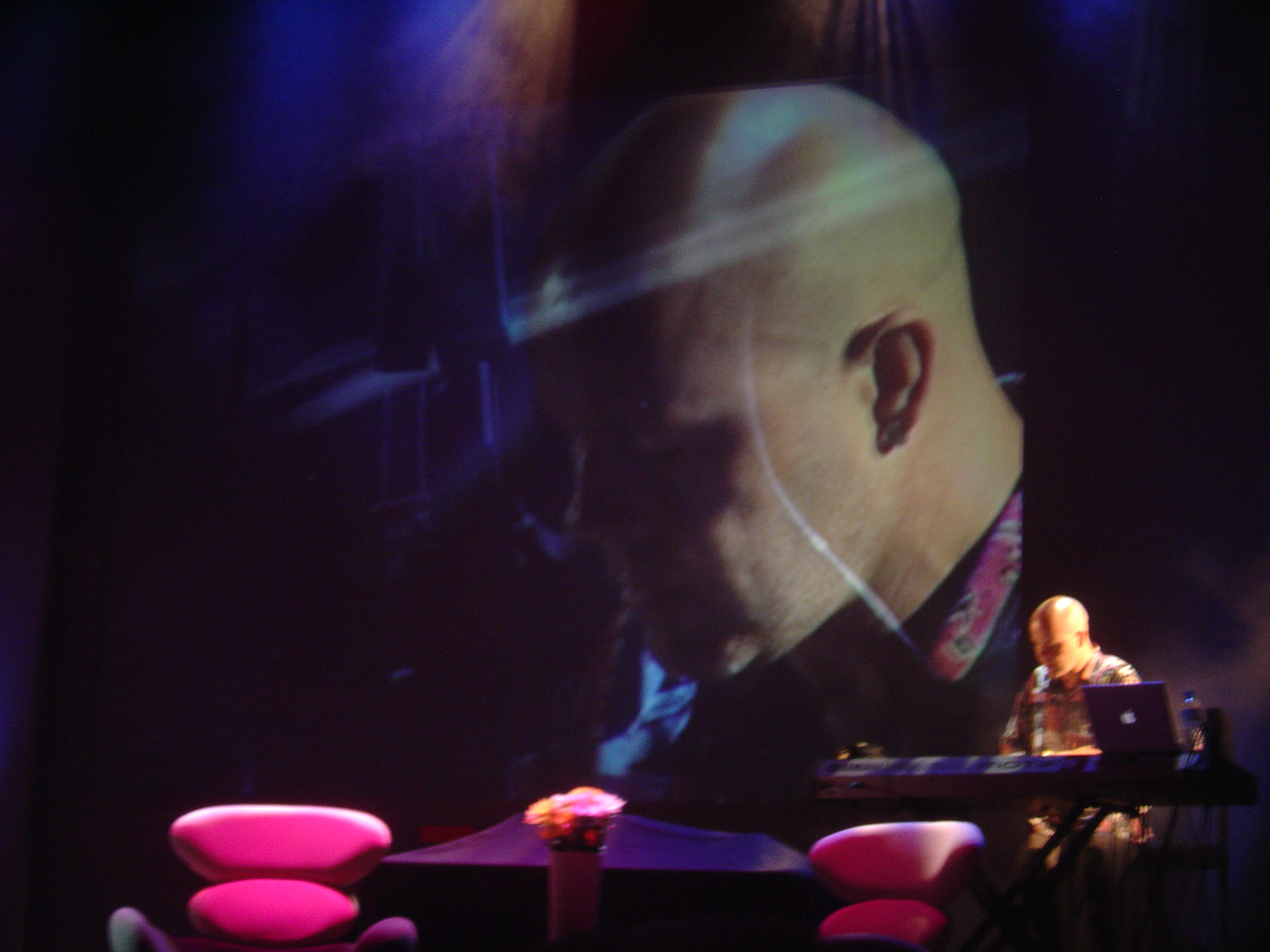 Photo of singer Thomas Dolby (Thomas Dolby Robertson), taken by Jimmy Wales at TEDGLOBAL, 2005, in Oxford, England.